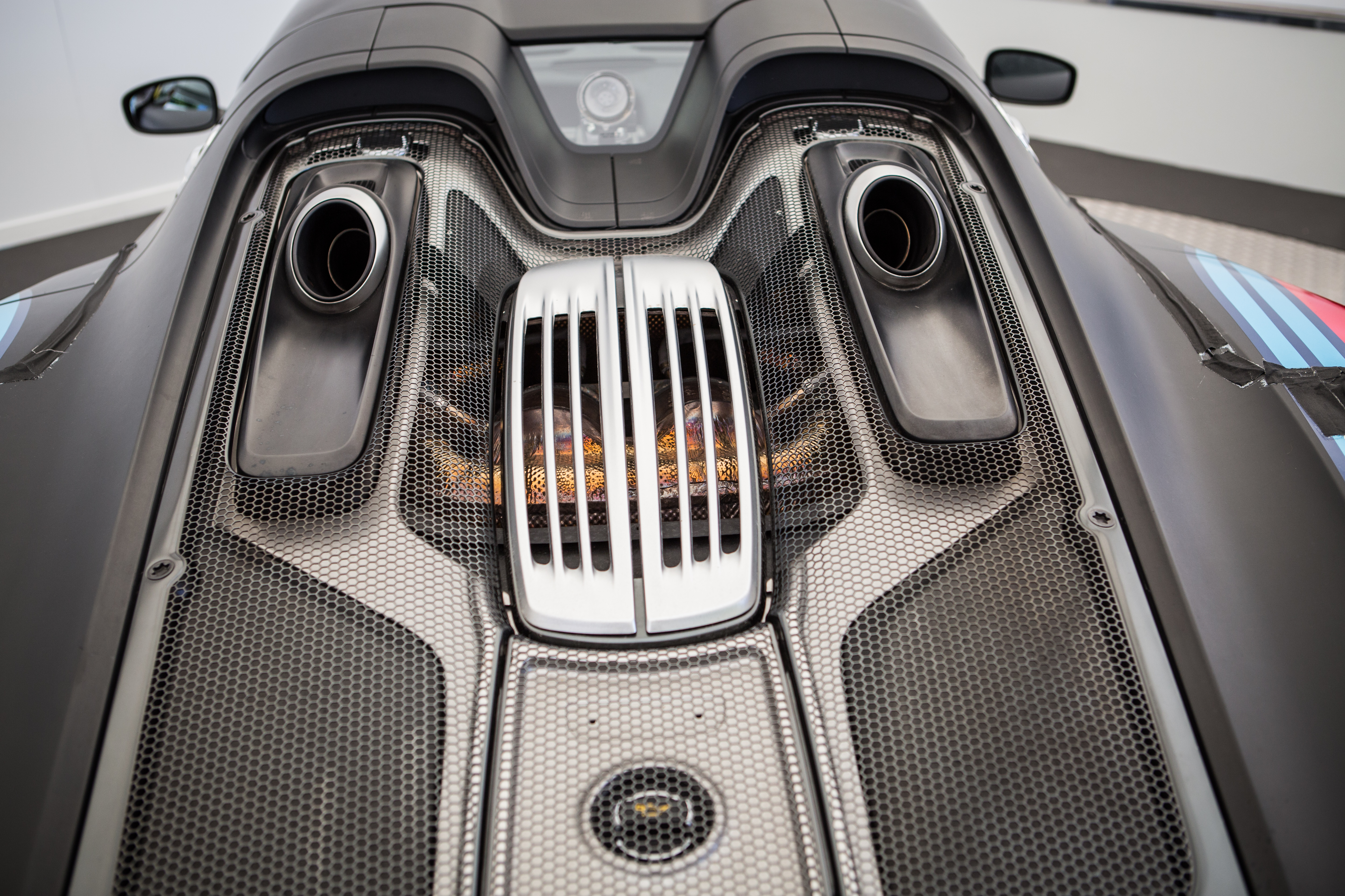 The Porsche 918 at the 2014 Goodwood Festival of Speed.